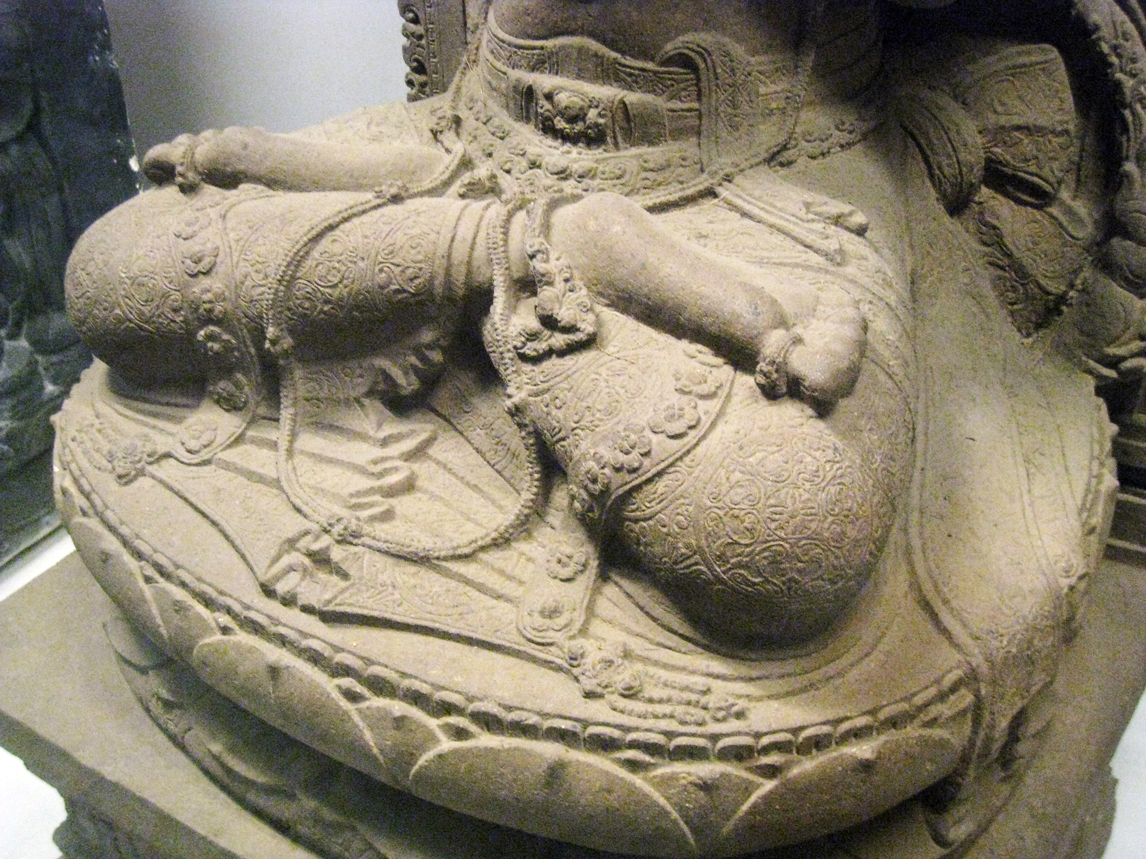 The carving details of clothes worn by Prajnaparamita, the buddhist goddess of transcendental wisdom, East Java circa 13th century CE. The clothes details shows intricate floral pattern similar to today traditional Javanese batik. This suggested intricate batik fabric pattern applied by "canting" already existed in 13th century Java or even earlier.